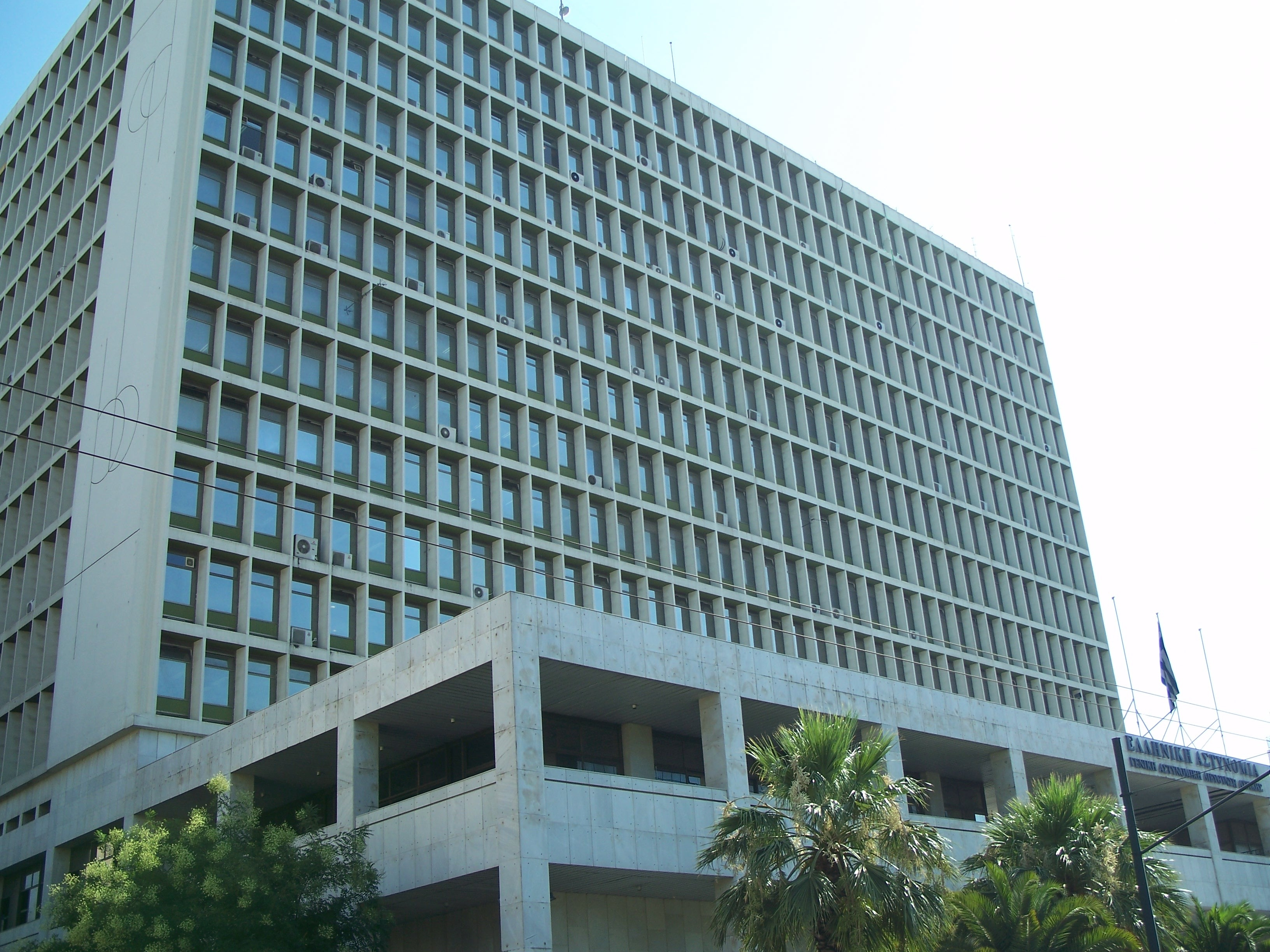 The headquarters of police in Athens, Attiki, Greece (Γενική Αστυνομική Διεύθυνση Αττικής-General Police Headquarters of Attiki).